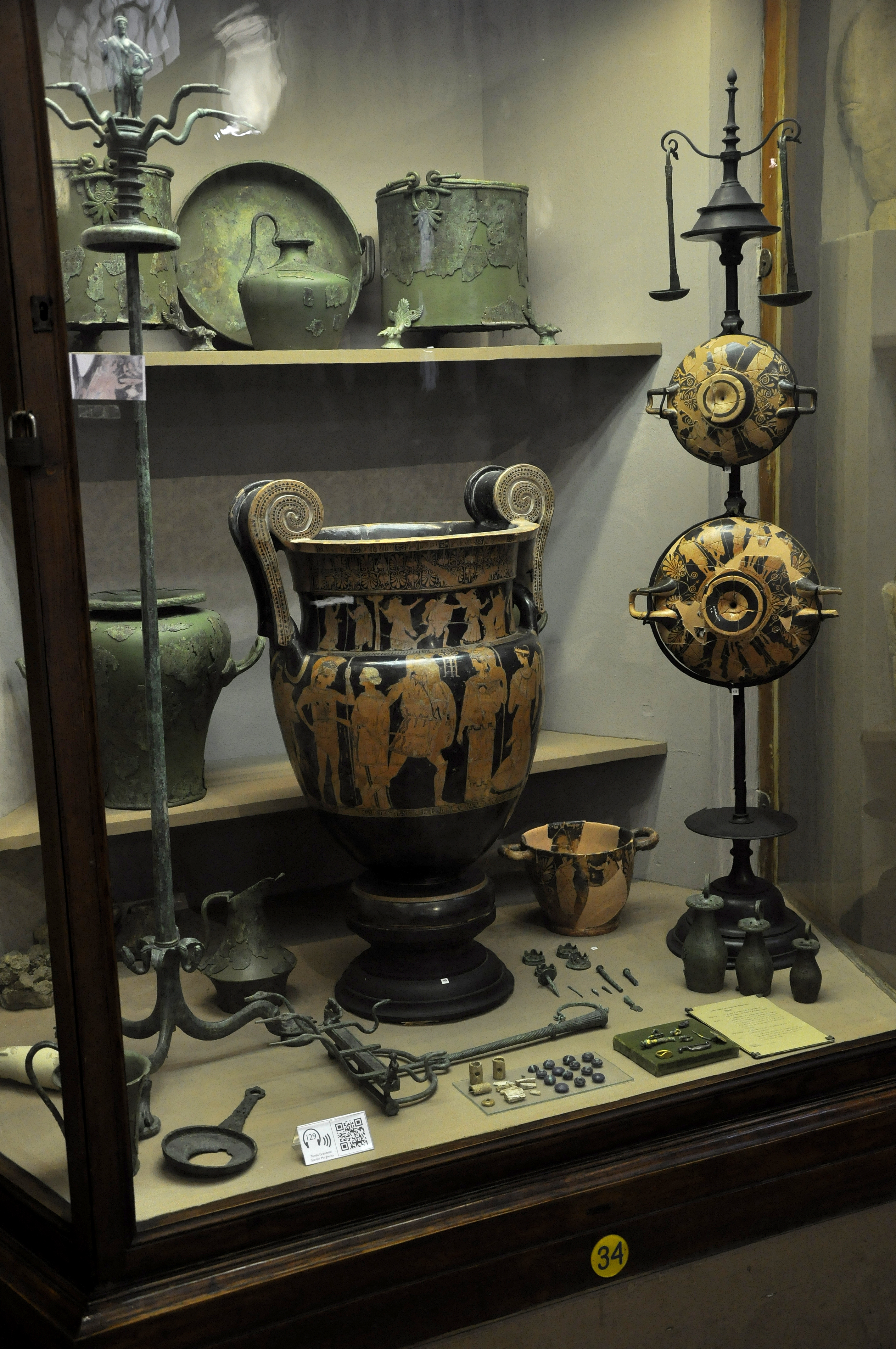 Findings in an Etruscan tomb in the Margherita Gardens (Bologna) including an amphora with volutes - Archeological Civic Museum of Bologna